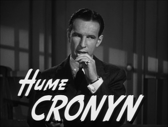 Cropped screenshot of Hume Cronyn from the trailer for the film The Postman Always Rings Twice.